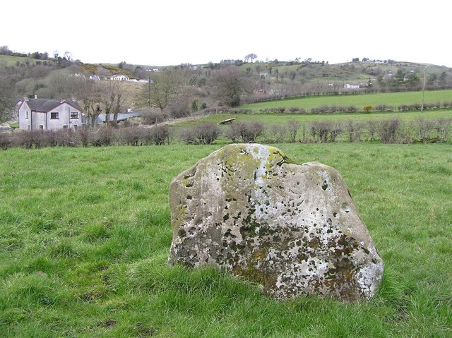 Standing stone at Glencull One of a pair of standing stones, the other one is a couple of hundred metres away, the view is to the north. This one is about a metre high.